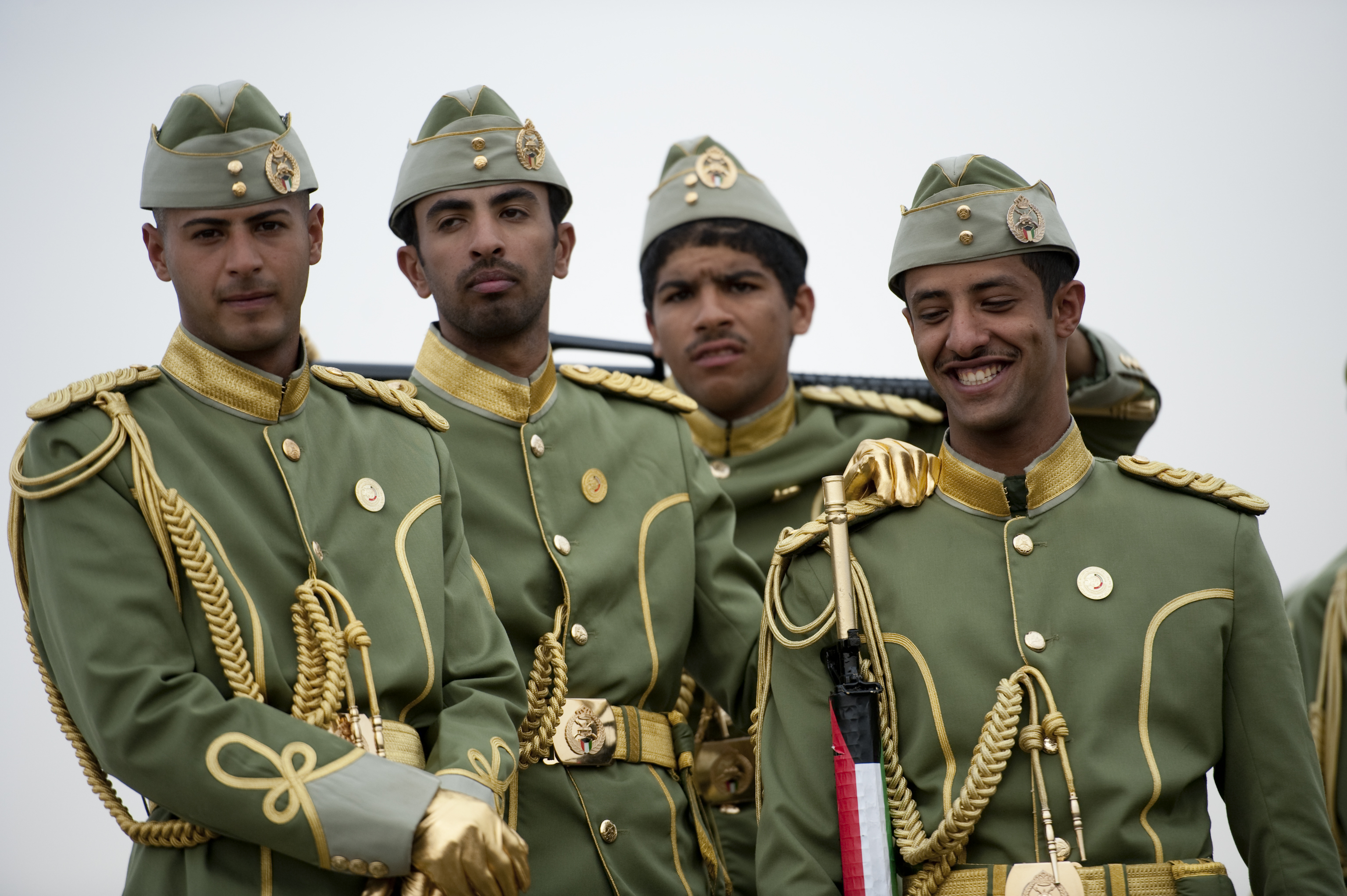 Kuwaiti soldiers wait to participate in their National Day military parade in Kuwait on Feb. 26, 2011. The parade was part of celebrations that marked the 50th anniversary of their independence, and the 20th anniversary of their ousting of Saddam Husseins forces from their country during the first Gulf War. (DoD photo by Mass Communication Specialist 1st Class Chad J. McNeeley/Released)